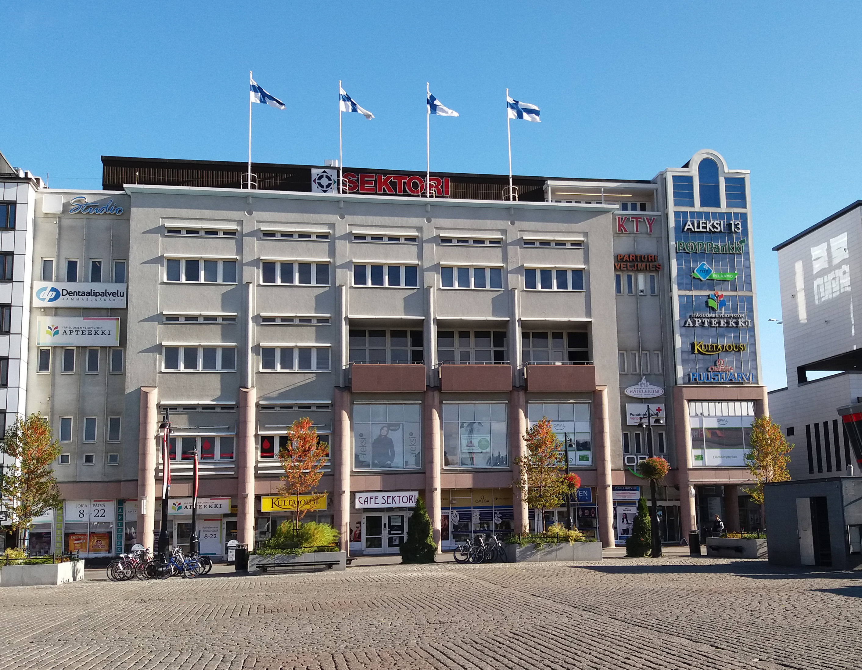 Flags on the roof of a building near Kuopio Market Square.